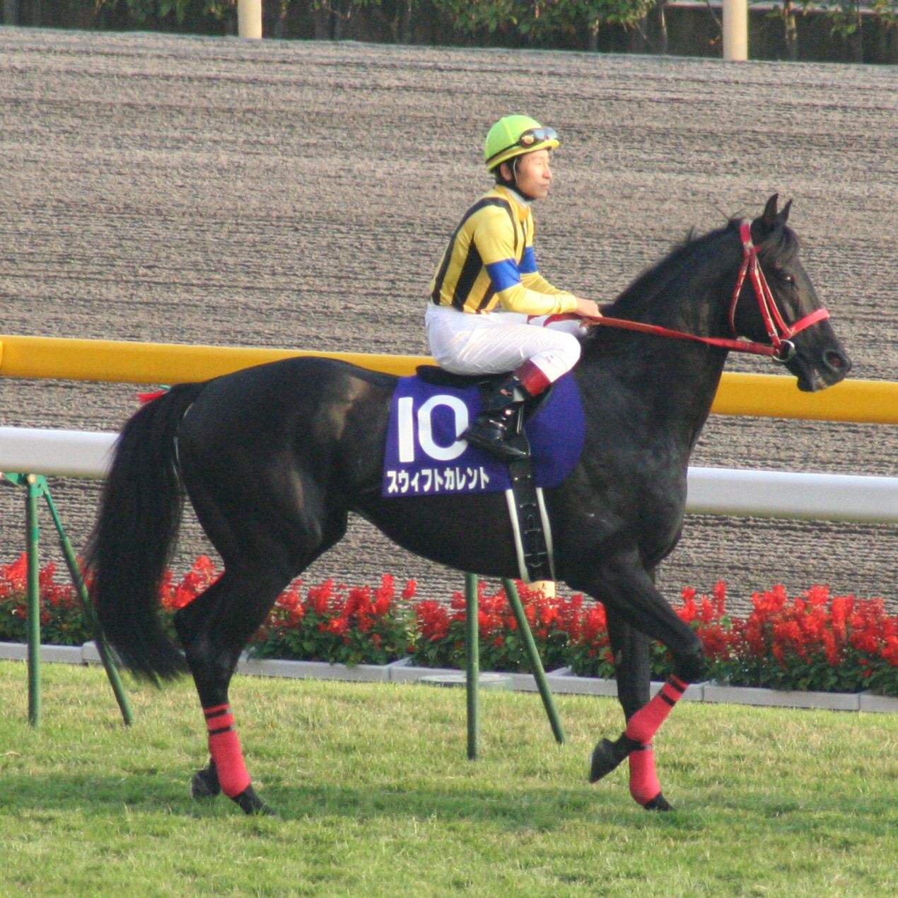 Swift Current(Tokyo Racecourse)